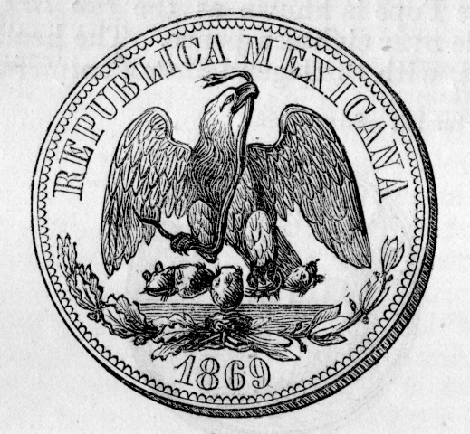 A Mexican silver peso of 1869. "Weight .867.5, fineness 903. Value 4s. 4 5/8d." Obverse shown